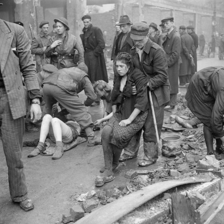 The British Army in North-west Europe 1944-45 Liberated Russian slave workers being rescued from a cellar after it had been set on fire by a German policeman, Osnabruck, 7 April 1945.